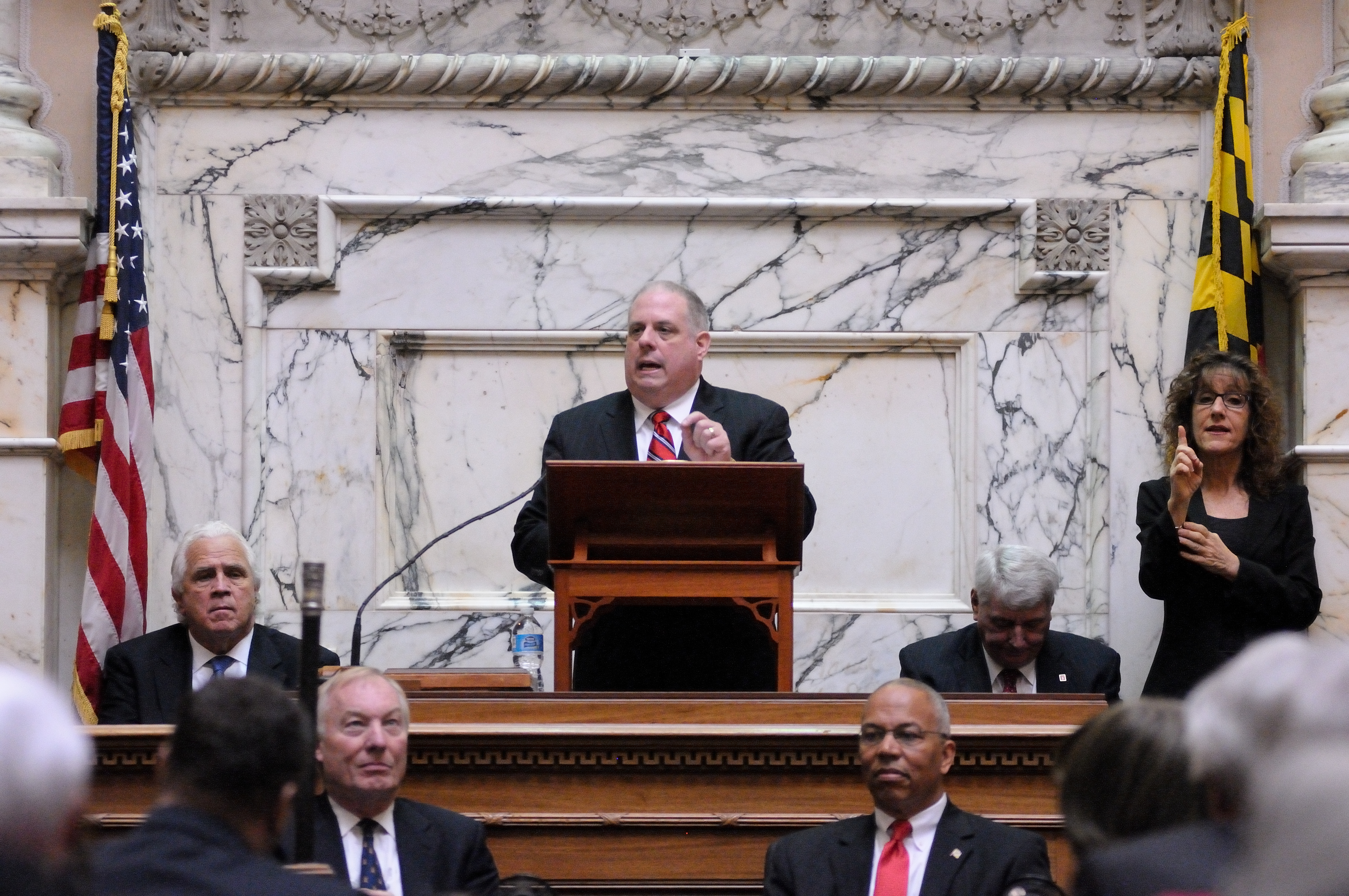 The State Of The State by Staff at House Chambers. 100 State Circle, Annapolis Maryland 21401